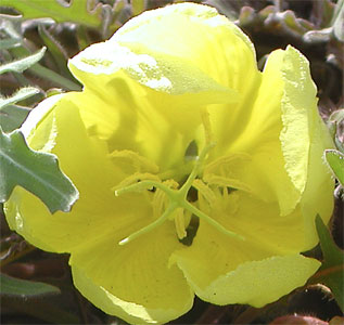 Oenothera primiveris Joshua Tree National Park, California, USA